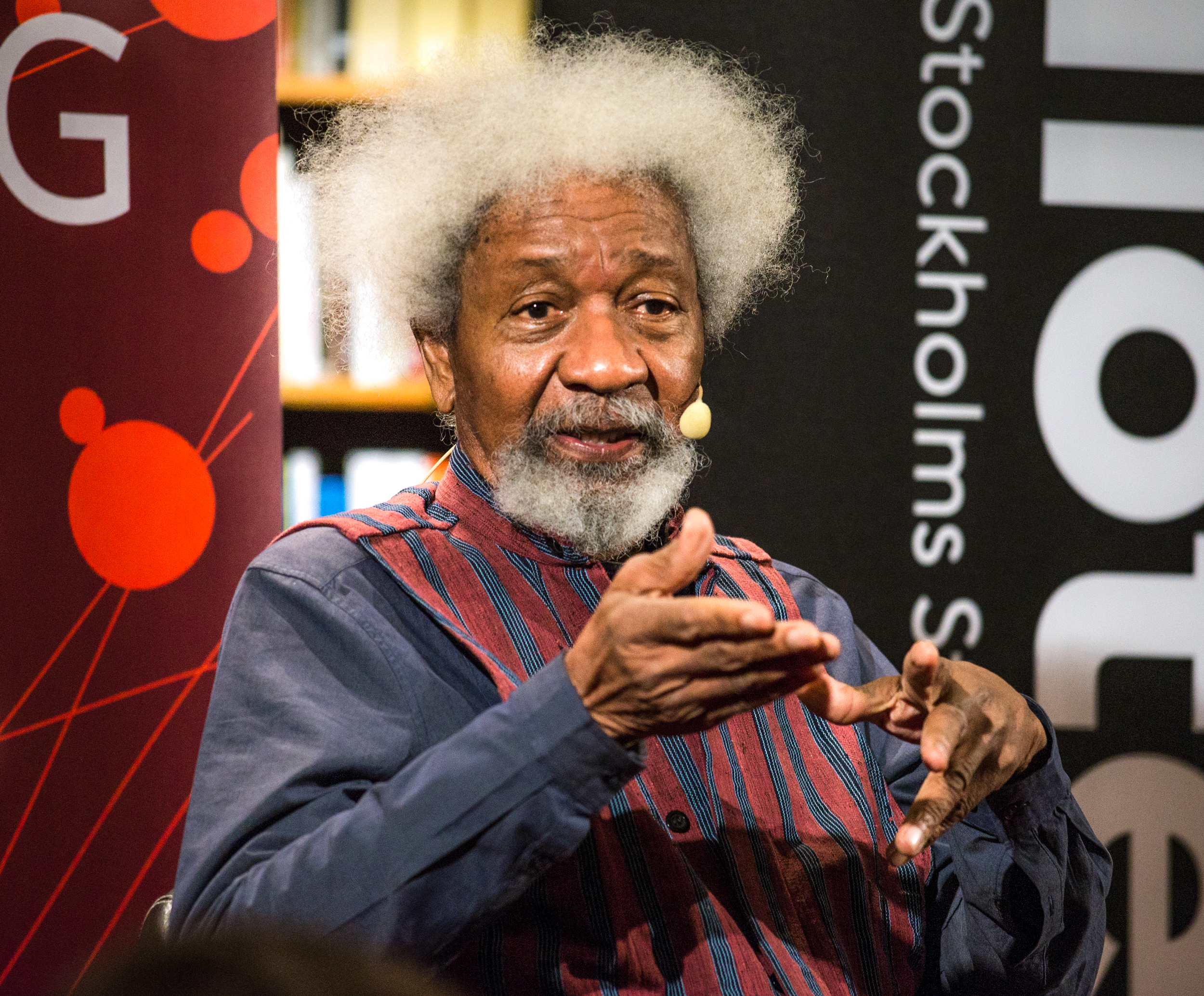 1986 Nobel Prize winner in Literature Wole Soyinka during a lecture at Stockholm Public Library on October 4, 2018.